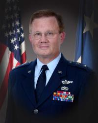 Major General Roger P. Lempke (RET.). Former TAG for the Nebraska National Guard.